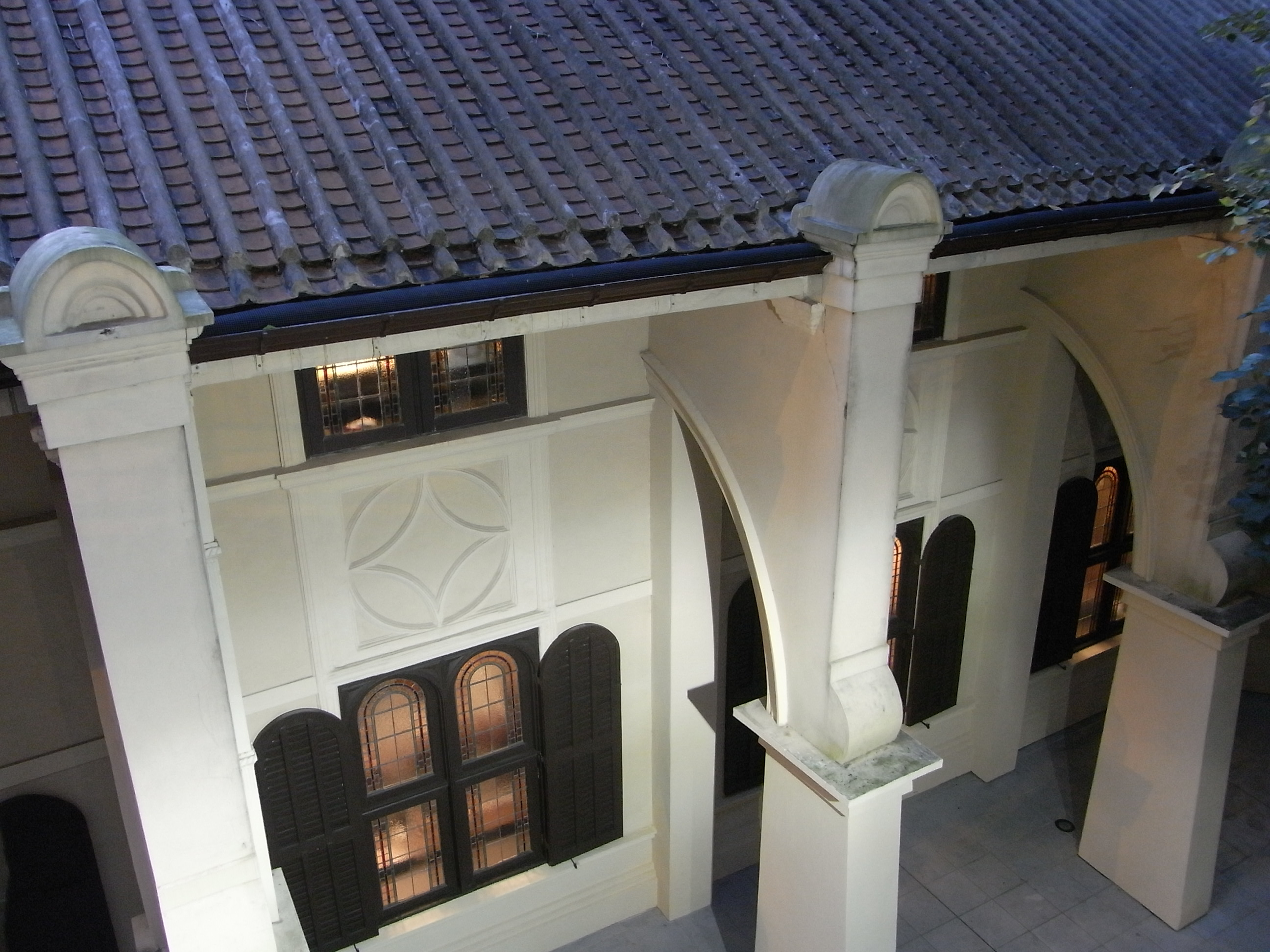 香港島半山區 黃昏